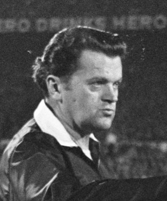 Gerhard Kunze in 1972.